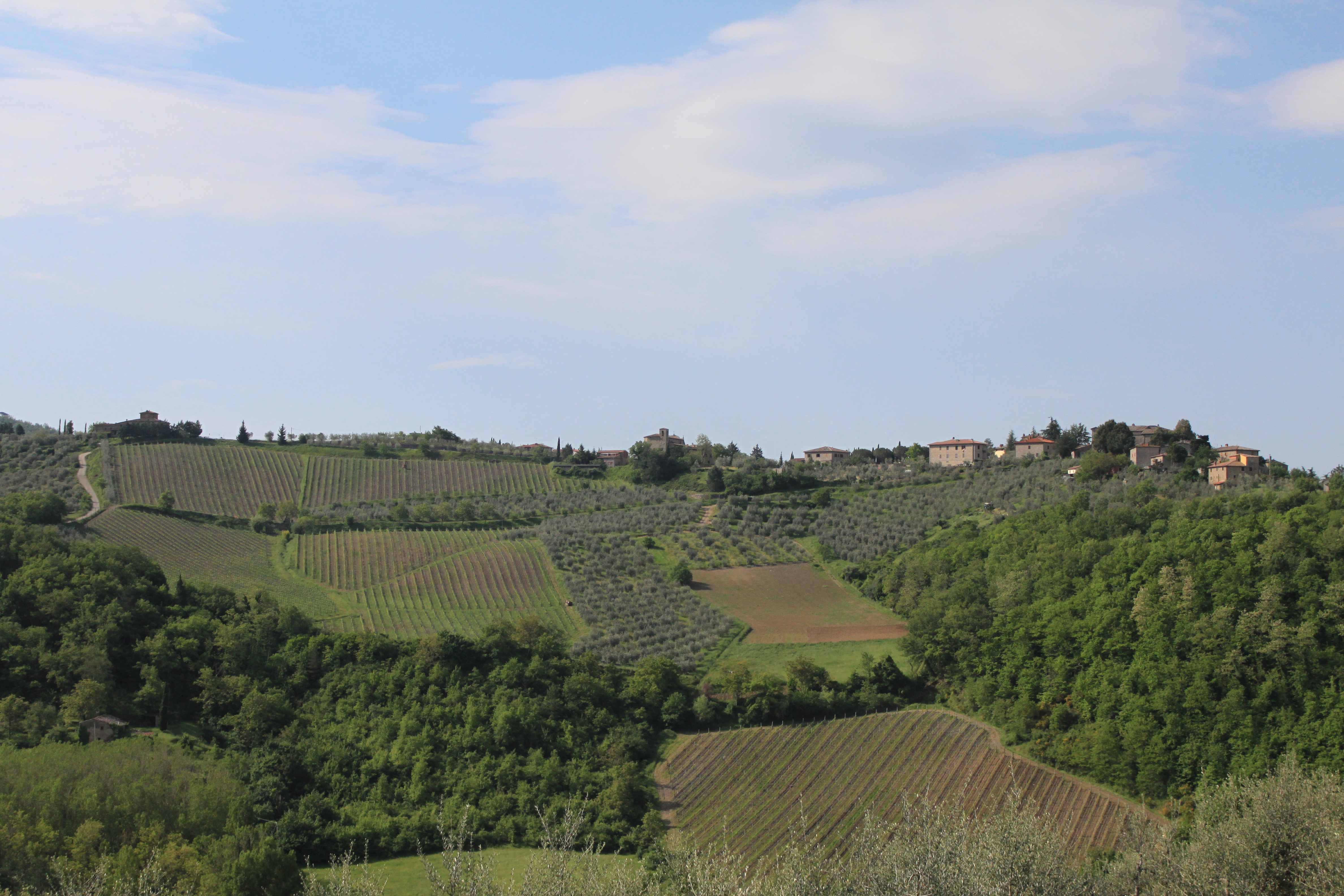 Grapevines in the Chianti wine zone of Tuscany in Central Italy